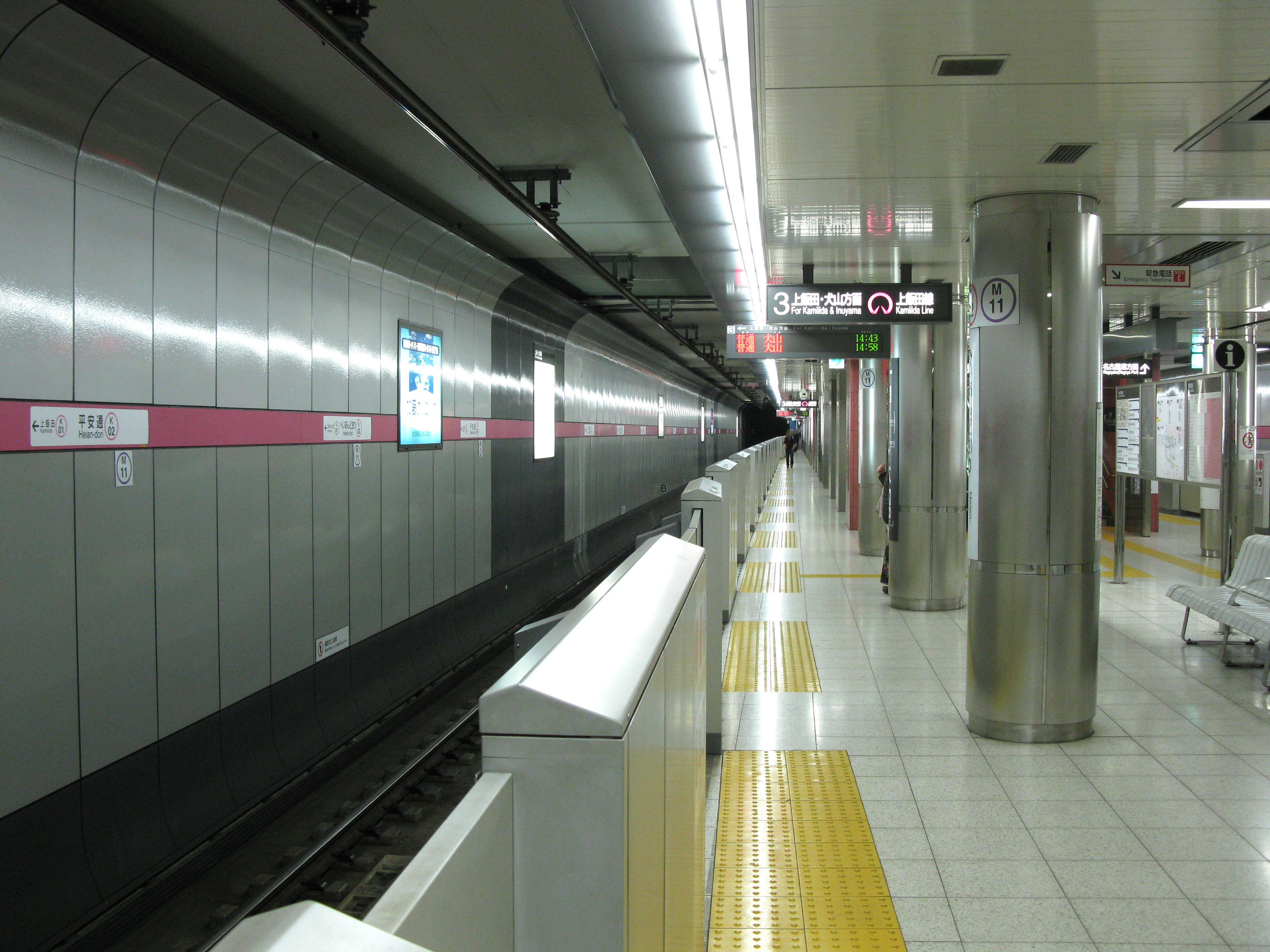 Heian-dōri Station platform (Nagoya Municipal Subway Kamiiida Line)